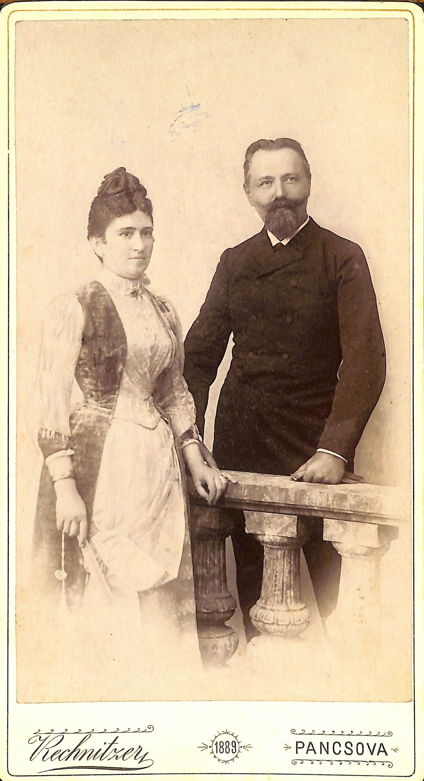 Photographic studio Kelerman from Pančevo